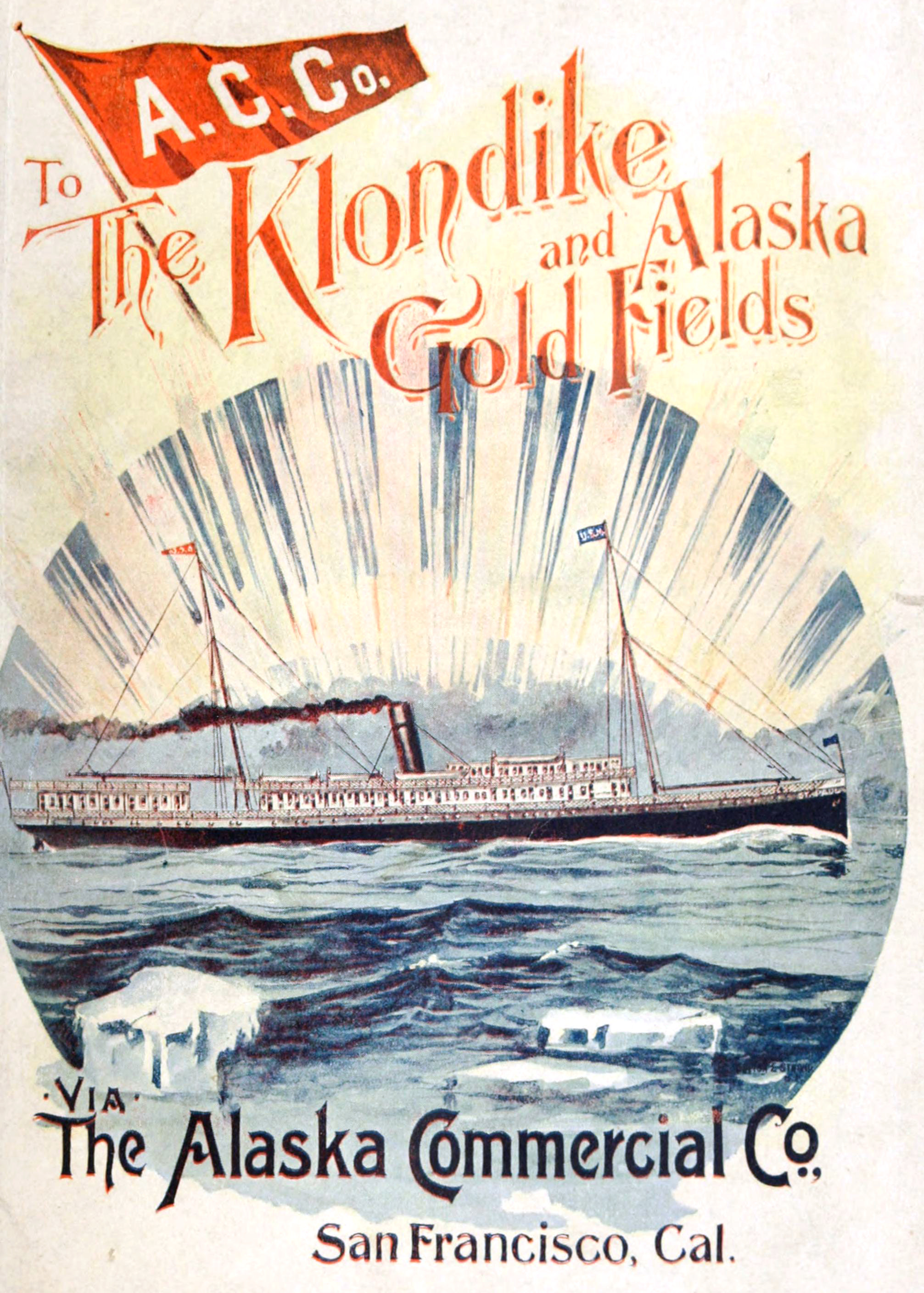 Cover of an advertising guidebook published by the Alaska Commercial Company for people traveling to Alaska and the Yukon in the Klondike Gold Rush. (image cropped and lightened)